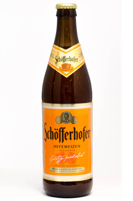 Schofferhofer Hefeweizen